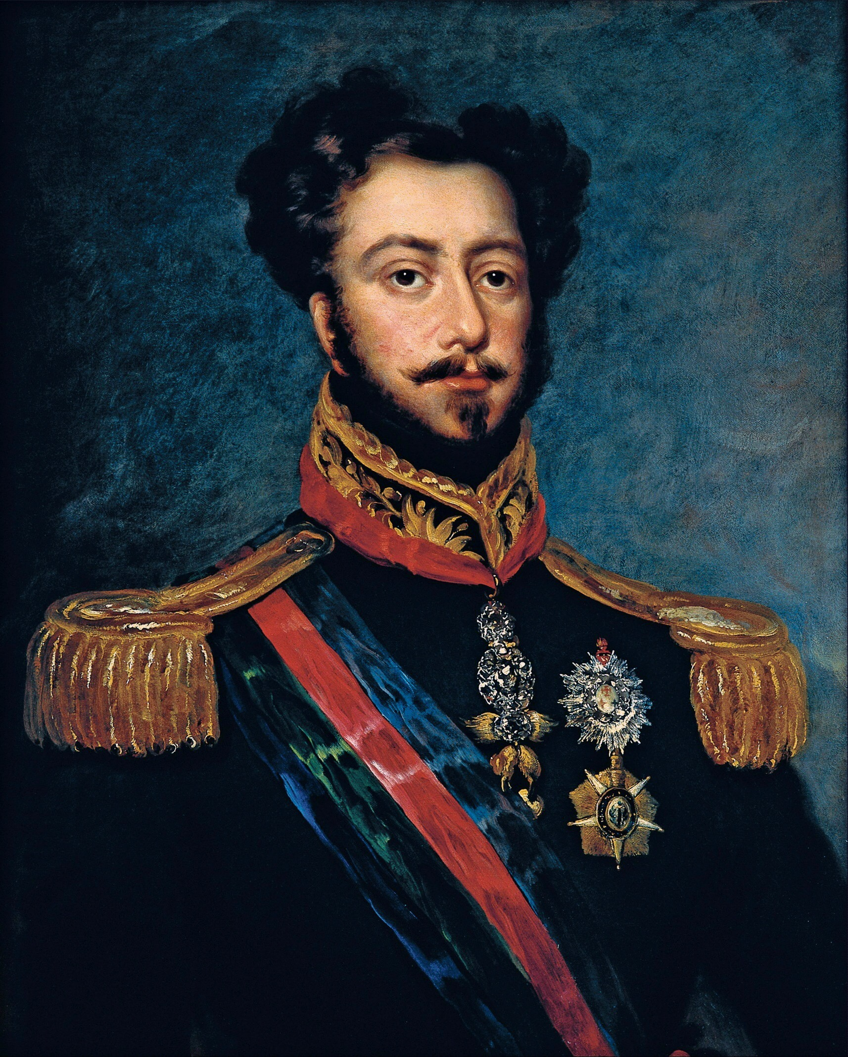 Modified version of Google Art Project file to imitate the photographs at here and here.